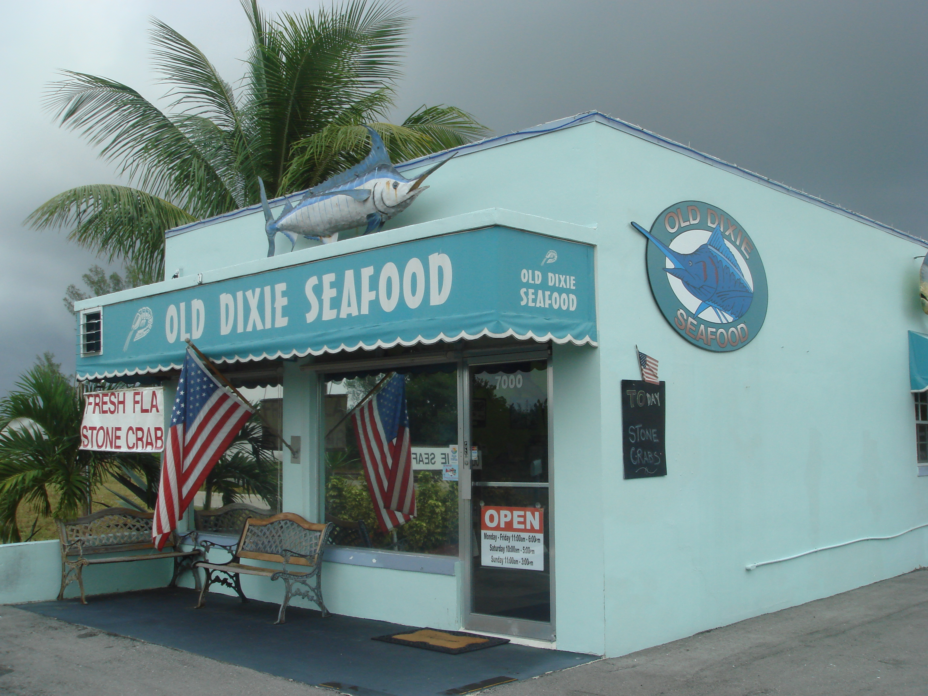 exterior of Old Dixie Seafood in Boca Raton